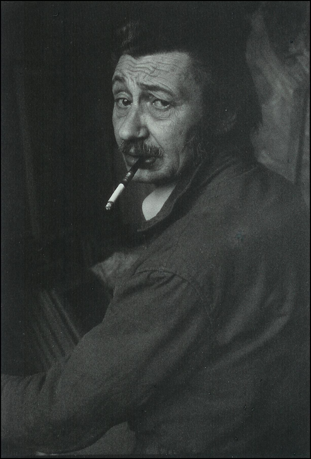 Stanislav Tůma Thema: Portraits Name: Josef Adámek, sculptor, Prague 1983